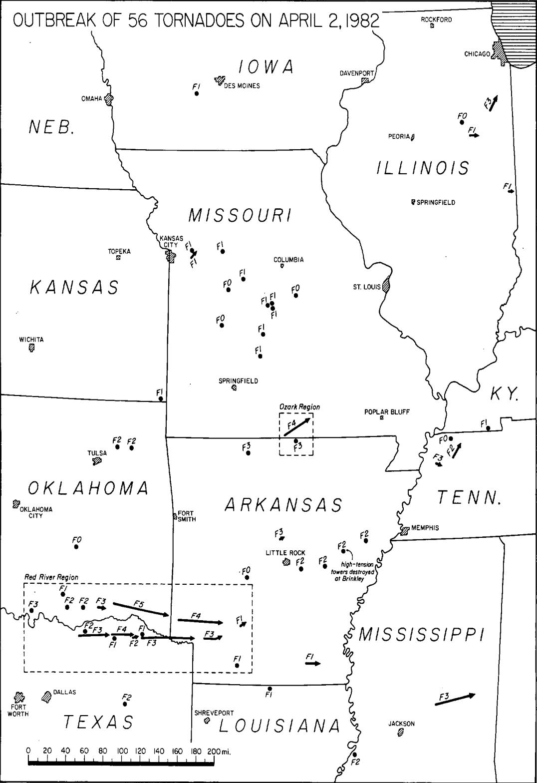 A map showing the tornadoes generated on April 2, 1982